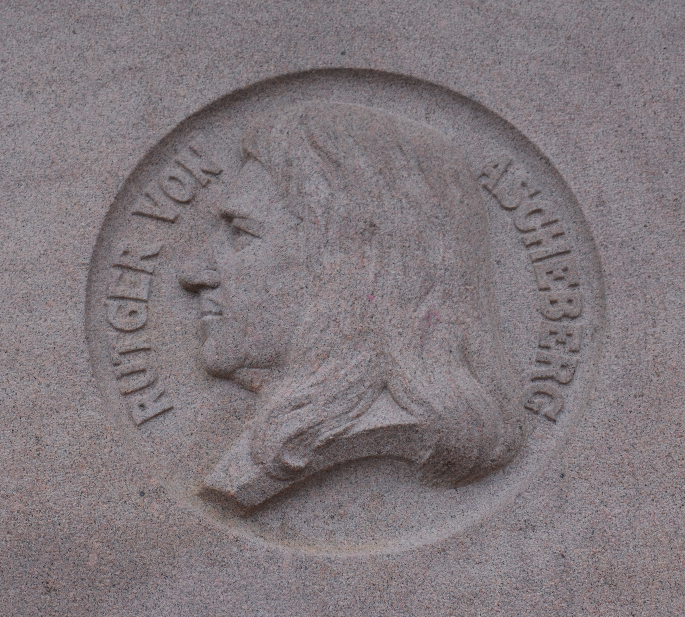 Portrait of Rutger von Asheberg at the base of the Karl X Gustav statue at Kungstorget in Uddevalla, Sweden, by Theodor Lundberg